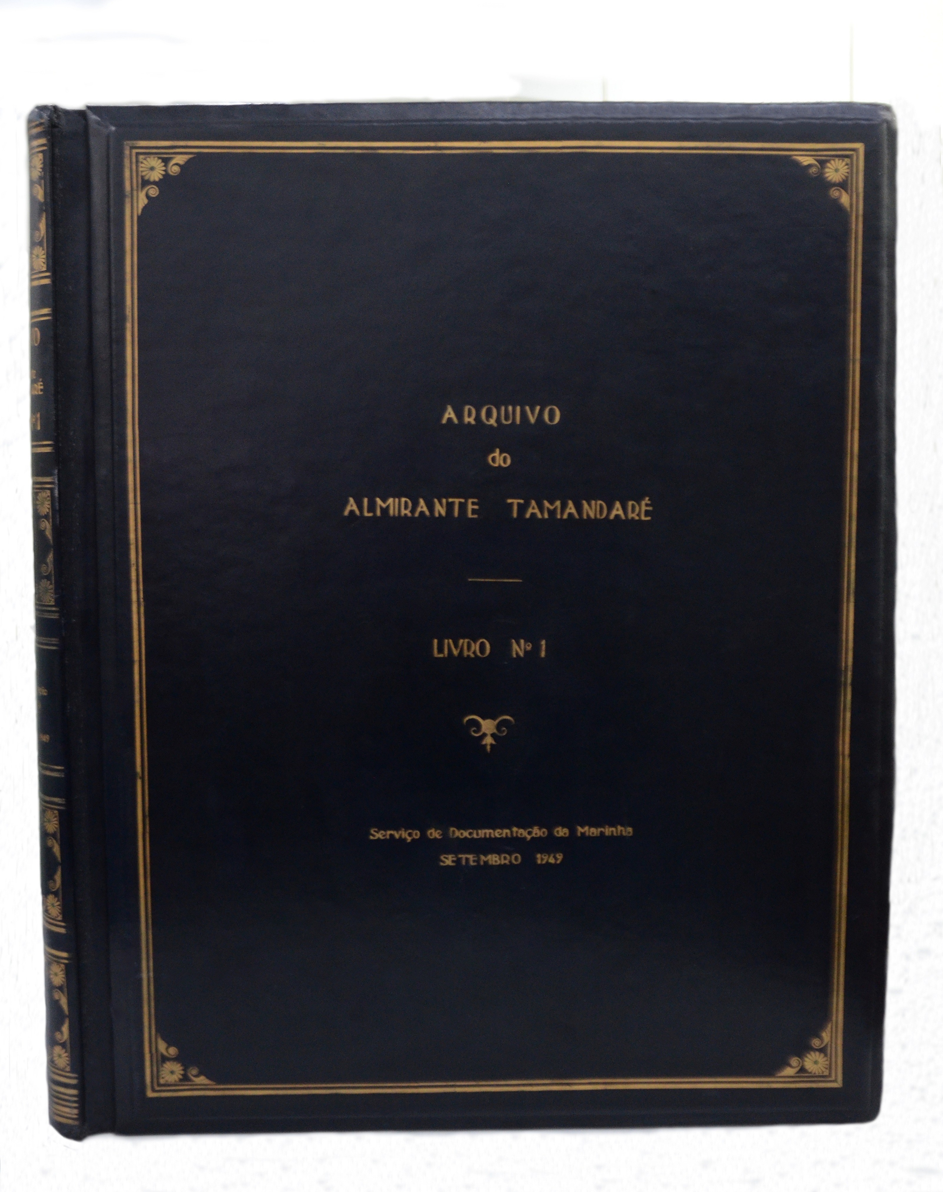 Arquivo Tamandaré livro nº1